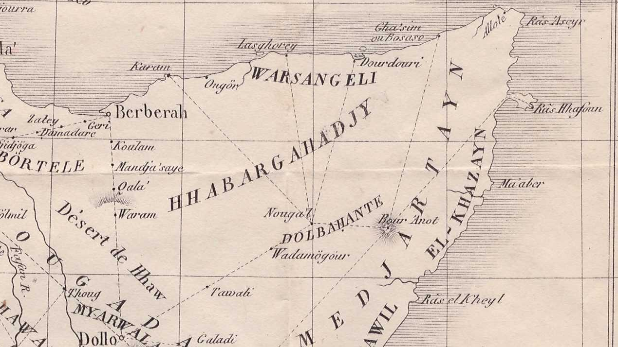 Map of the Somali peninsula, 1840-1841